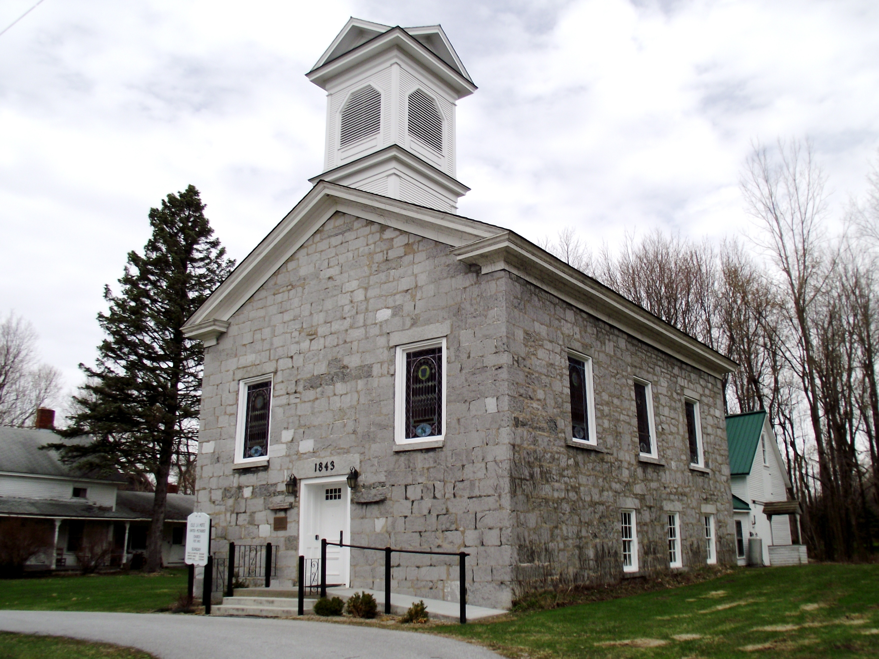 Methodist-Episcopal Church of Isle La Motte, built in 1843, also served as a schoolhouse and as town hall.